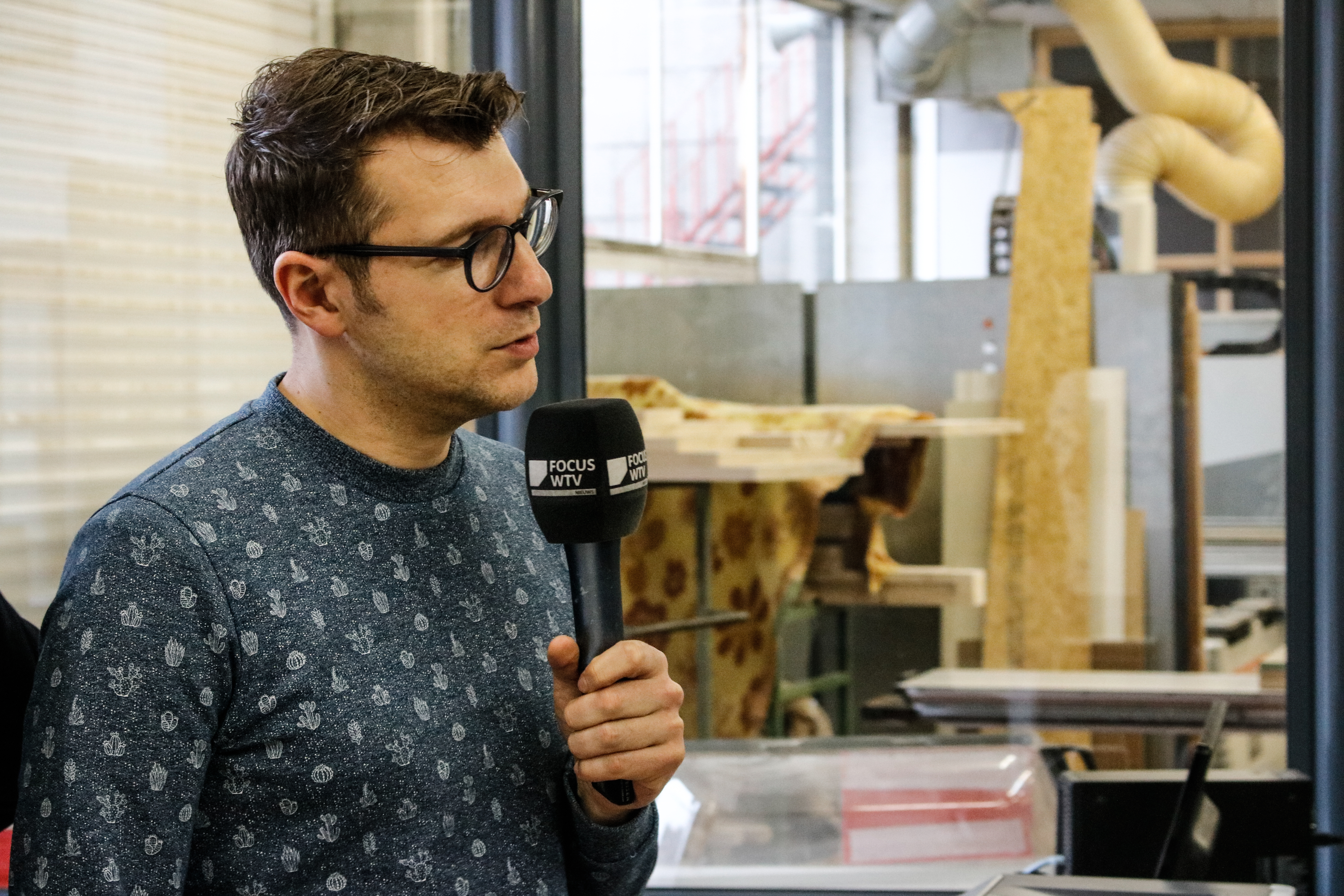 Tijs Neirynck, newsanchor and journalist is interviewing someone for a newsitem.